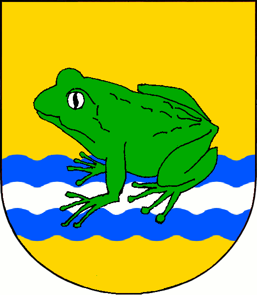 Municipal coat of arms of Žabovřesky nad Ohří village, Litoměřice District, Czech Republic.